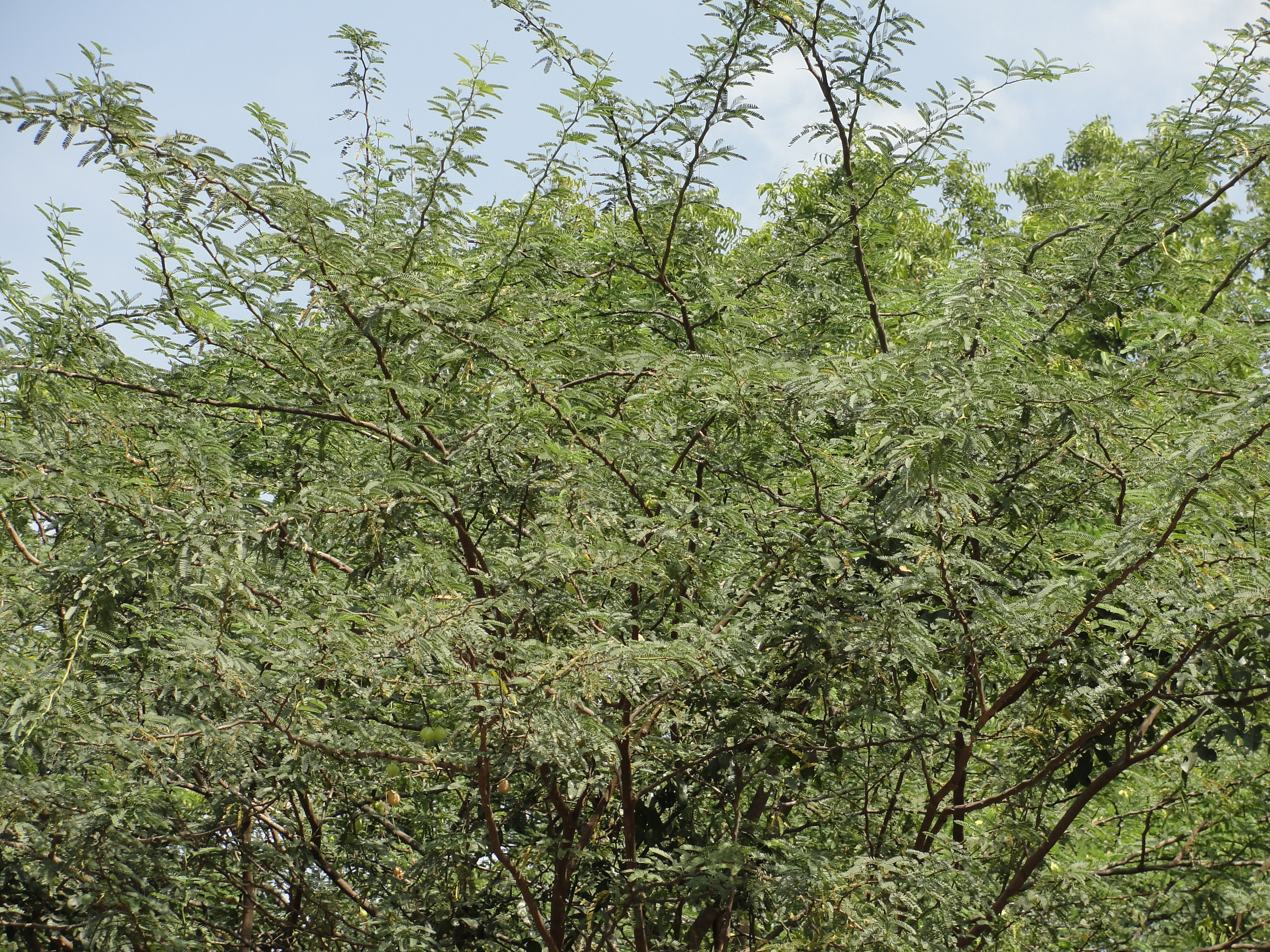 A view of Prosopis juliflora in Salem, Tamil Nadu, India.